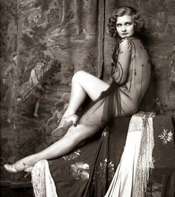 Drucilla Strain